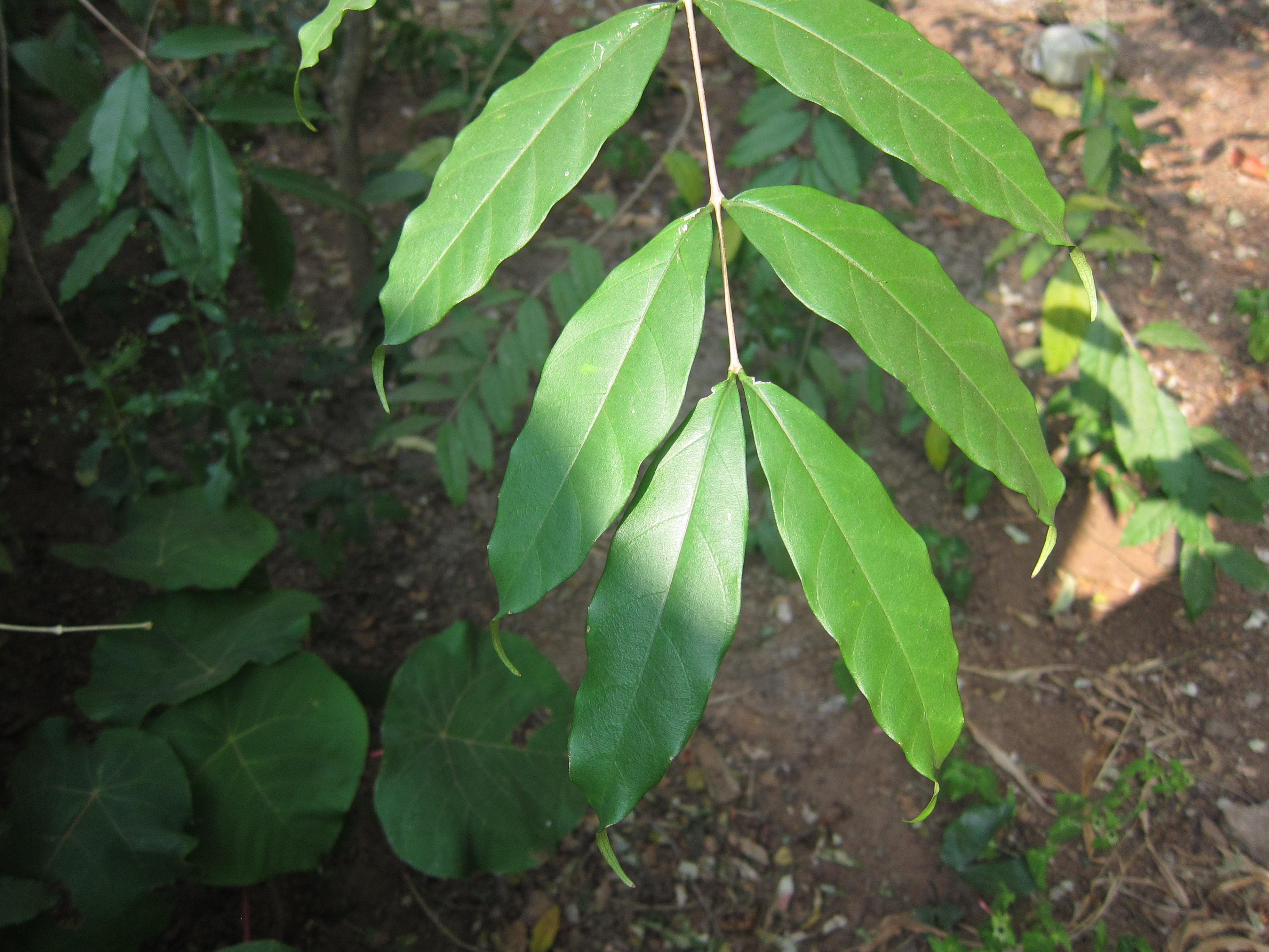 Wrightia tinctoria Sweet Indrajao ദന്തപ്പാല വെട്ടുപാല വെൺപാല അയ്യപ്പാല ഗന്ധപ്പാല